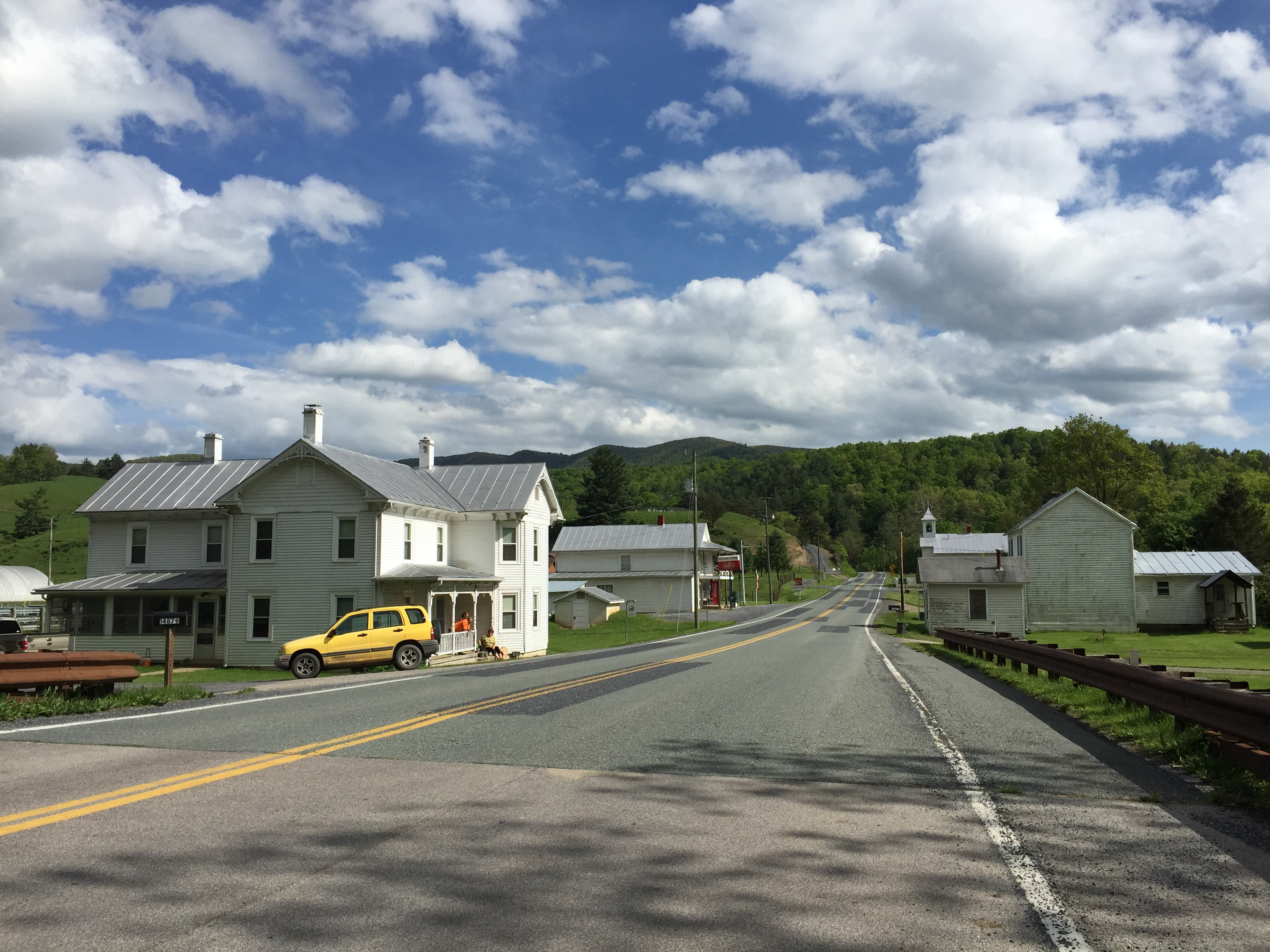 View east along the Highland Turnpike (U.S. Route 250) in Head Waters, Highland County, Virginia